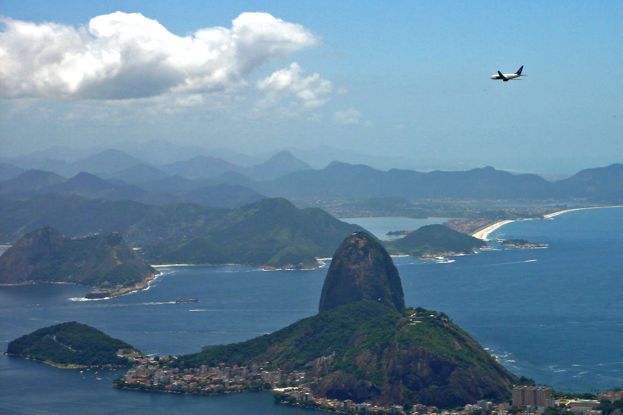 VARIG jetplane taking off from Santos Dumont Airport and maneuvering around the Pão de Açucar, Rio de Janeiro, Brazil